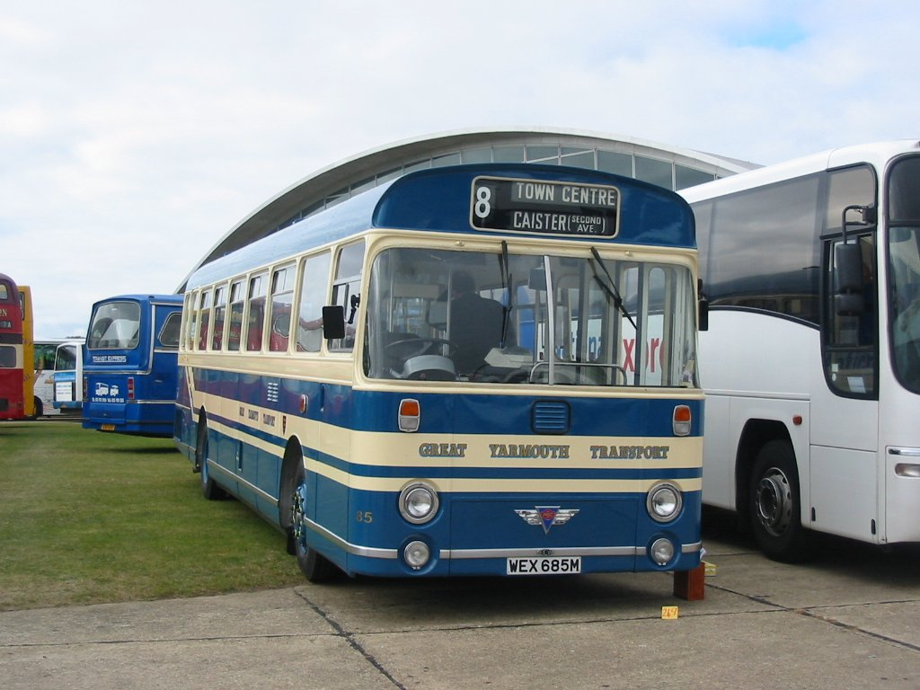 Great Yarmouth 85 WEX685M